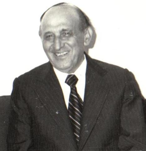 Todor Zhivkov Portrait